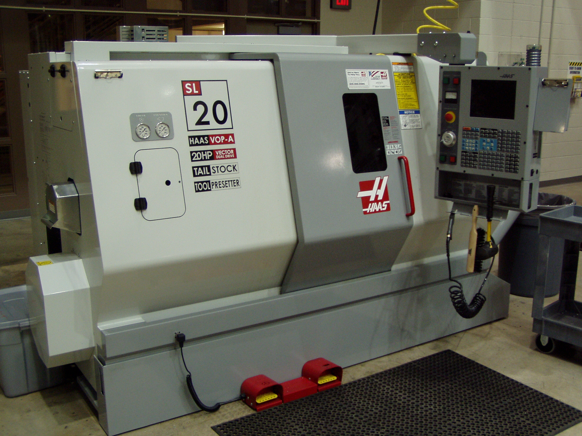 A CNC Turning Center in the FAME Lab in the Leonhard Building at Penn State.